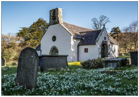 Llangwyfan Church, Denbighahire Image by Alun Williams